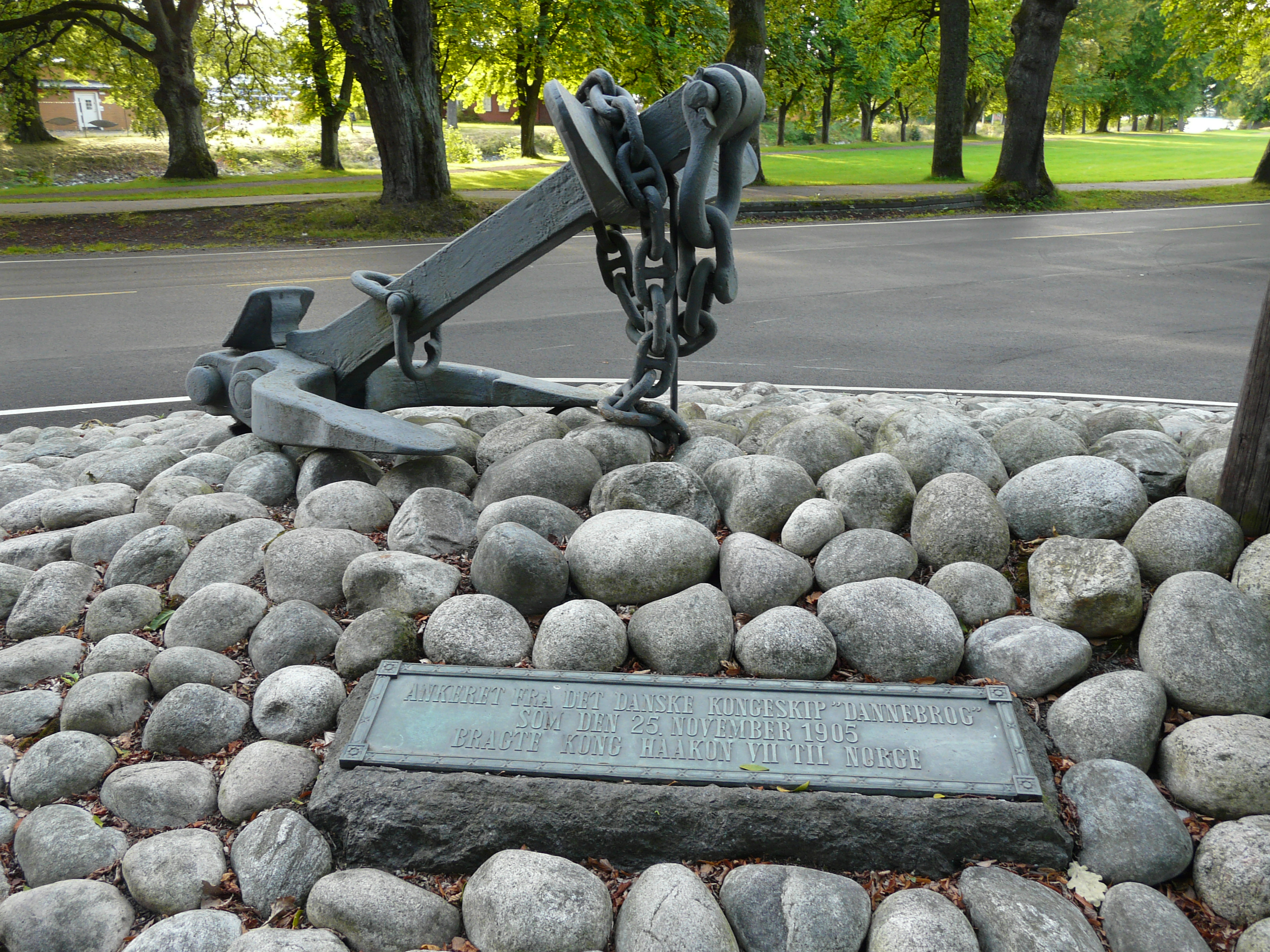 Anchor of the danish yatch DANNEBROG that bring the king HAAKON VII to Norway on 25 of Nov 1905. Monument in Horten.